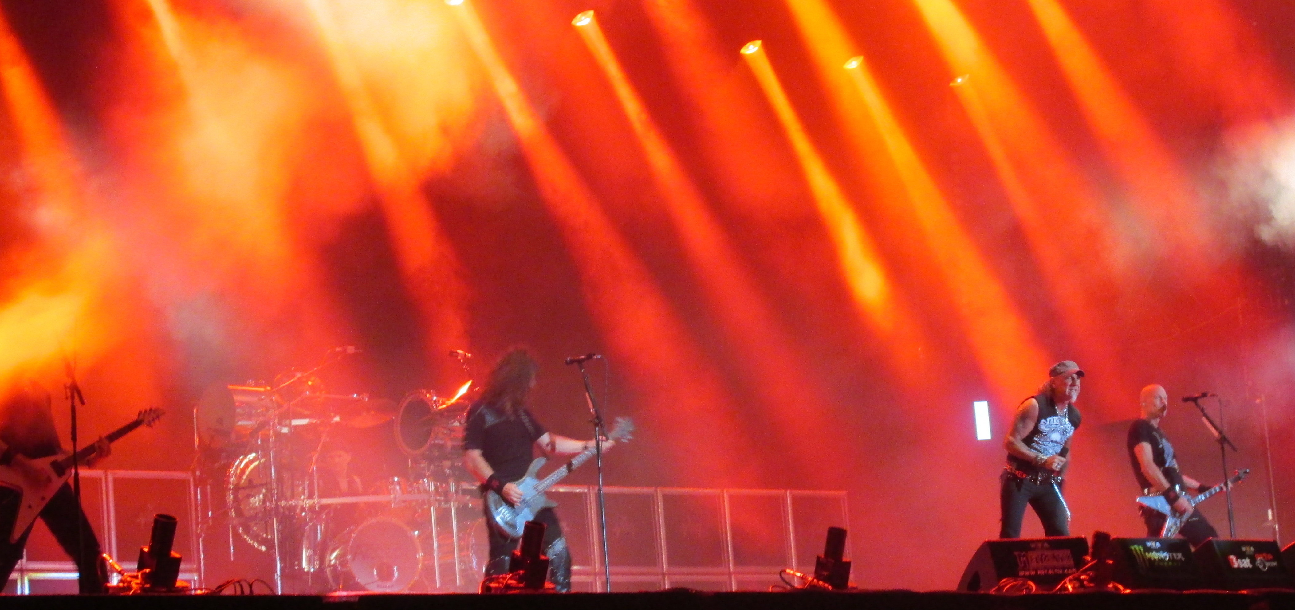 Accept at Wacken Open Air 2014